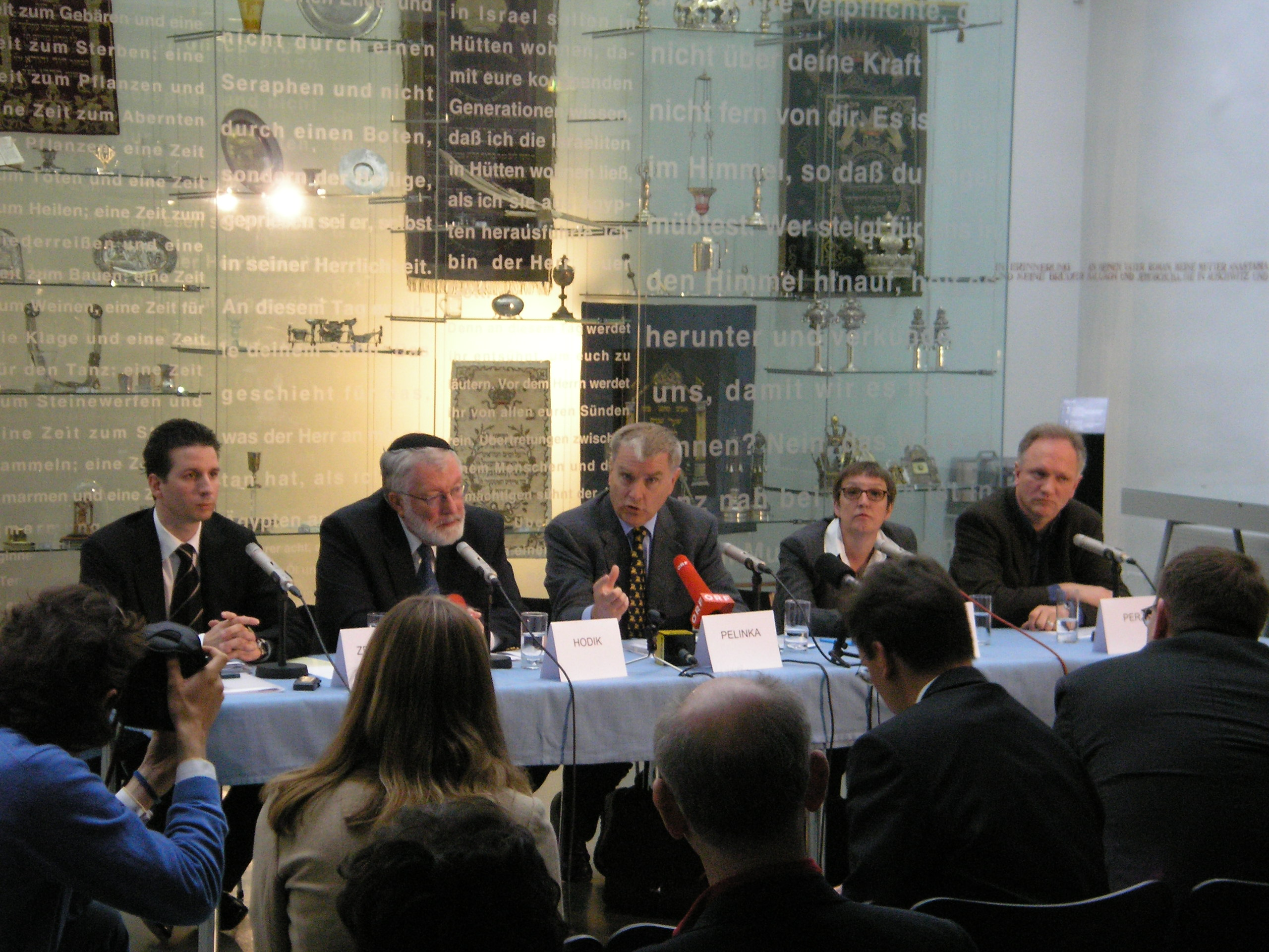 The Austrian political scientist Anton Pelinka at a news-conference in the Jewish Museum of Vienna (centre). Also present from the left is Dr. Ingo Zechner, the former general-secretary Avshalom Hodik of the Jewish Community, Brigitte Bailer-Galanda of the Documentation Centre of Austrian Resistance, and the historian Bertrand Perz. The occasion was the founding of a Vienna Simon-Wiesenthal-Centre for Holocaust Studies (VWI).